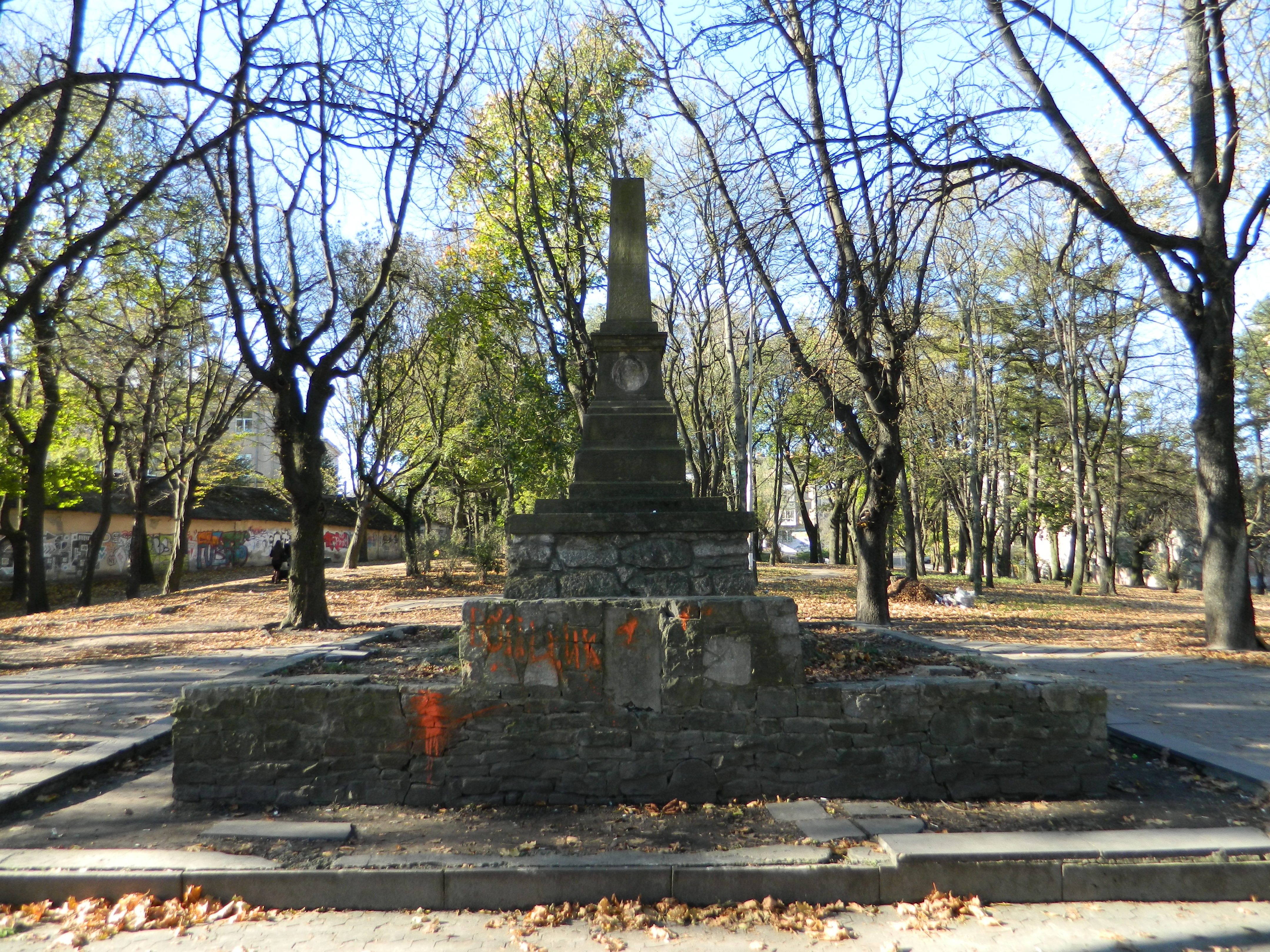 Mountain of executions